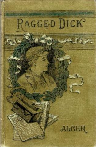 Cover of the 1895 Henry T. Coates and Company edition of "Ragged Dick"